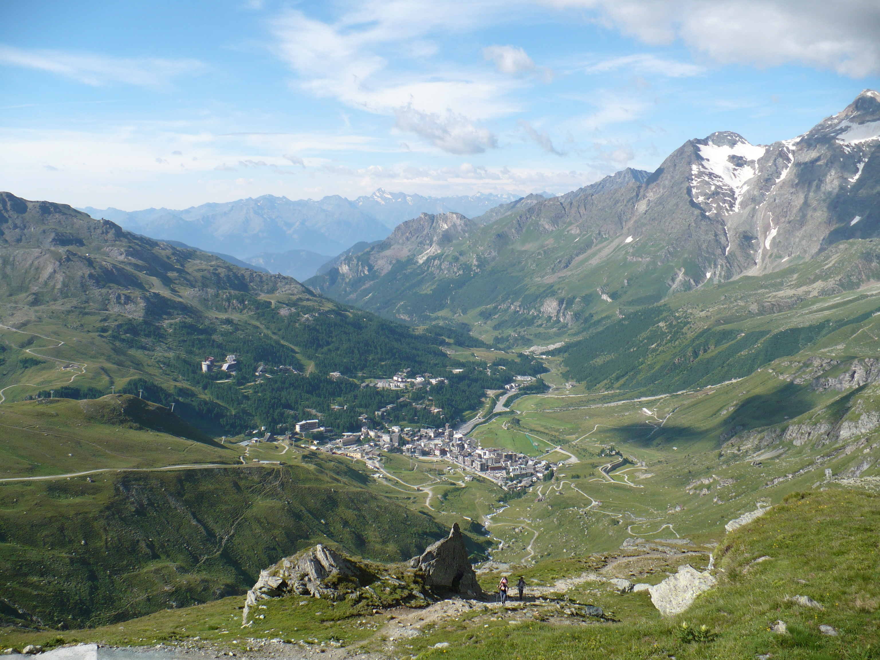 Valtournenche - Aosta Valley - Italy